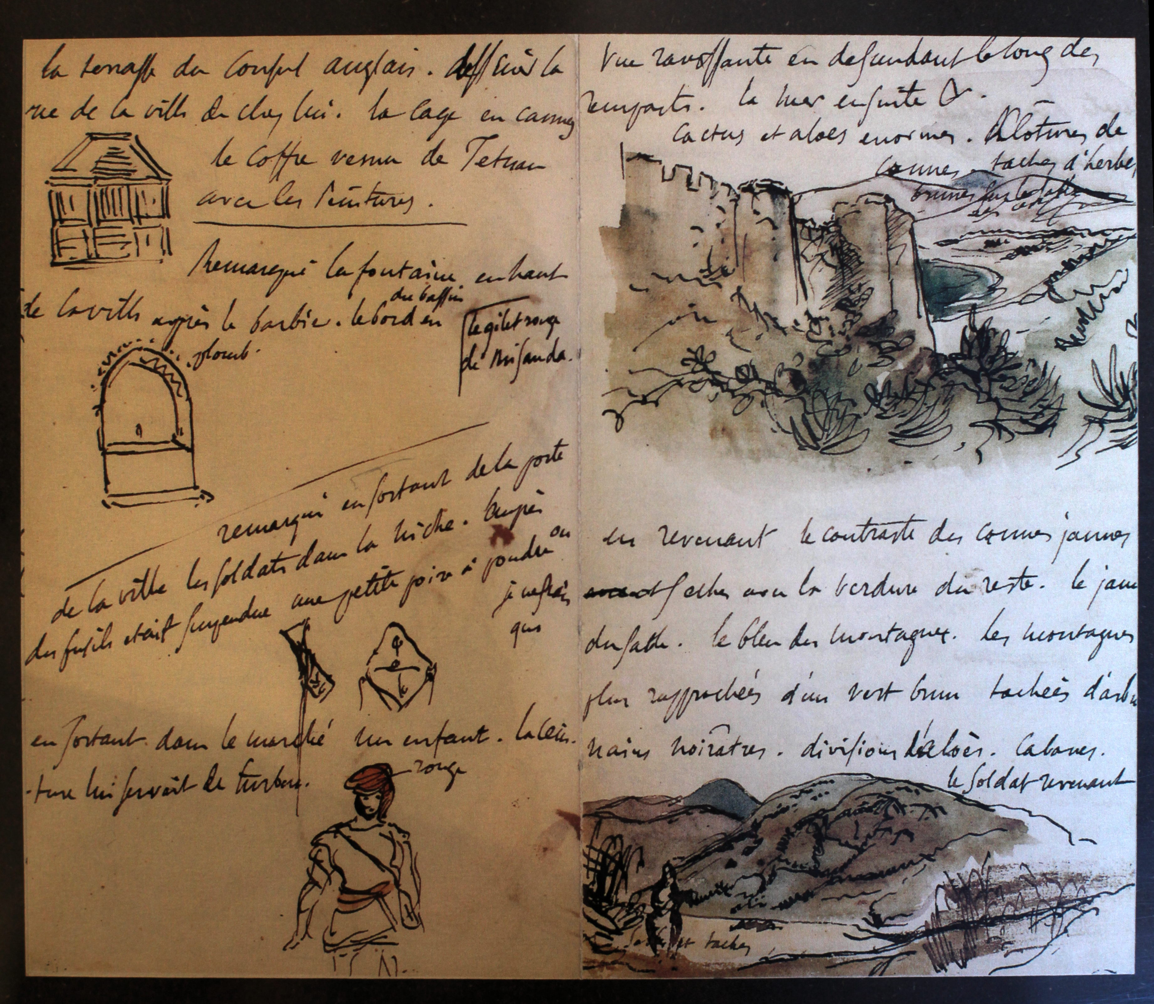 Sketchbook of Delacroix, notes from a journey to Morocco.